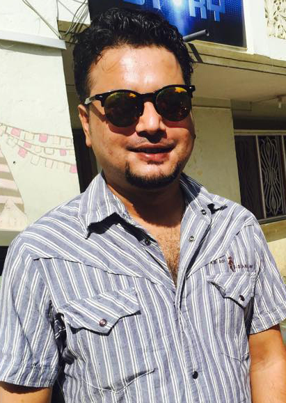 Sugam Pokharel